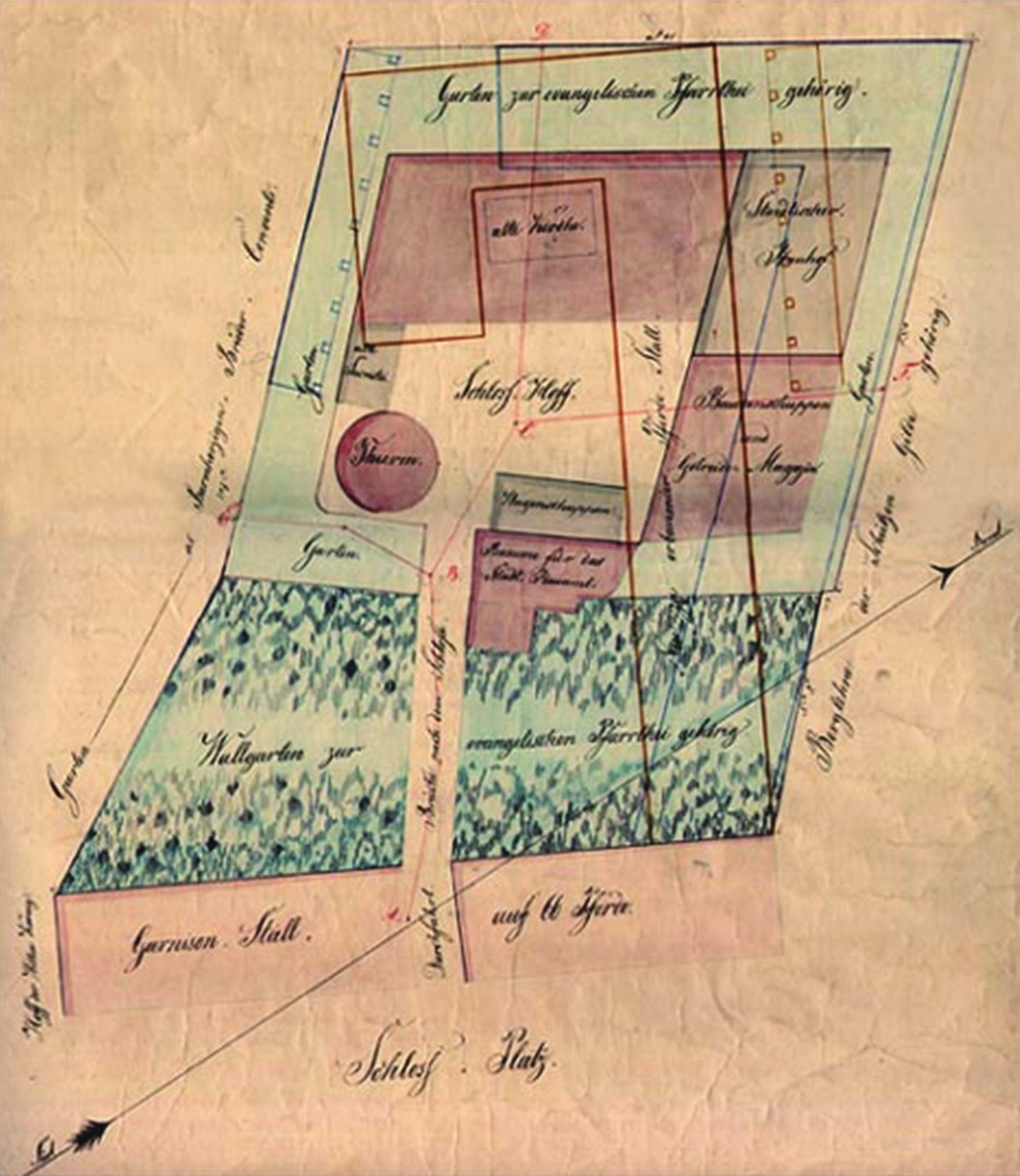 Project of garrison stables at the Prudnik castle